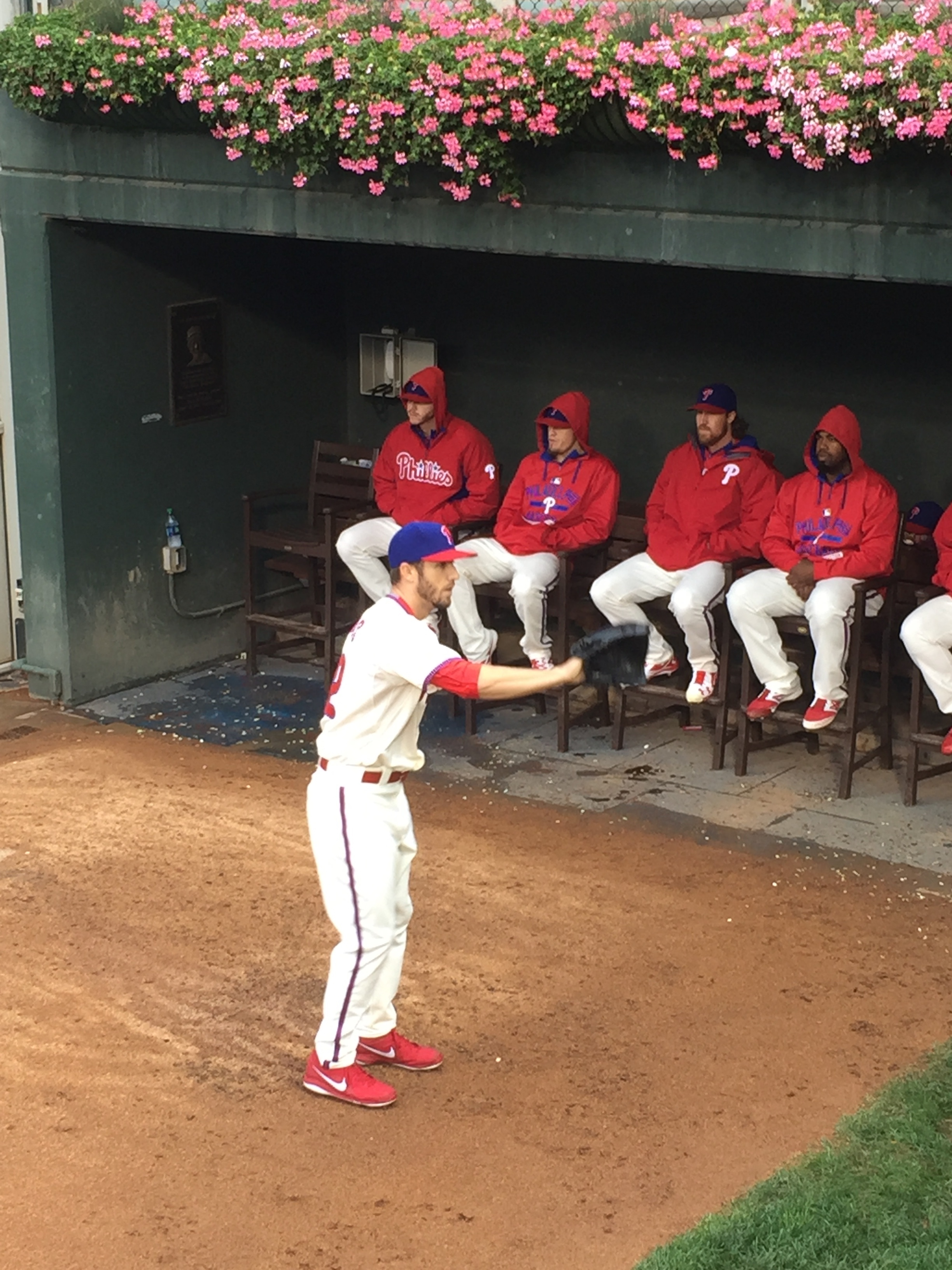 Ken Roberts With the Phillies on October 3rd, 2015